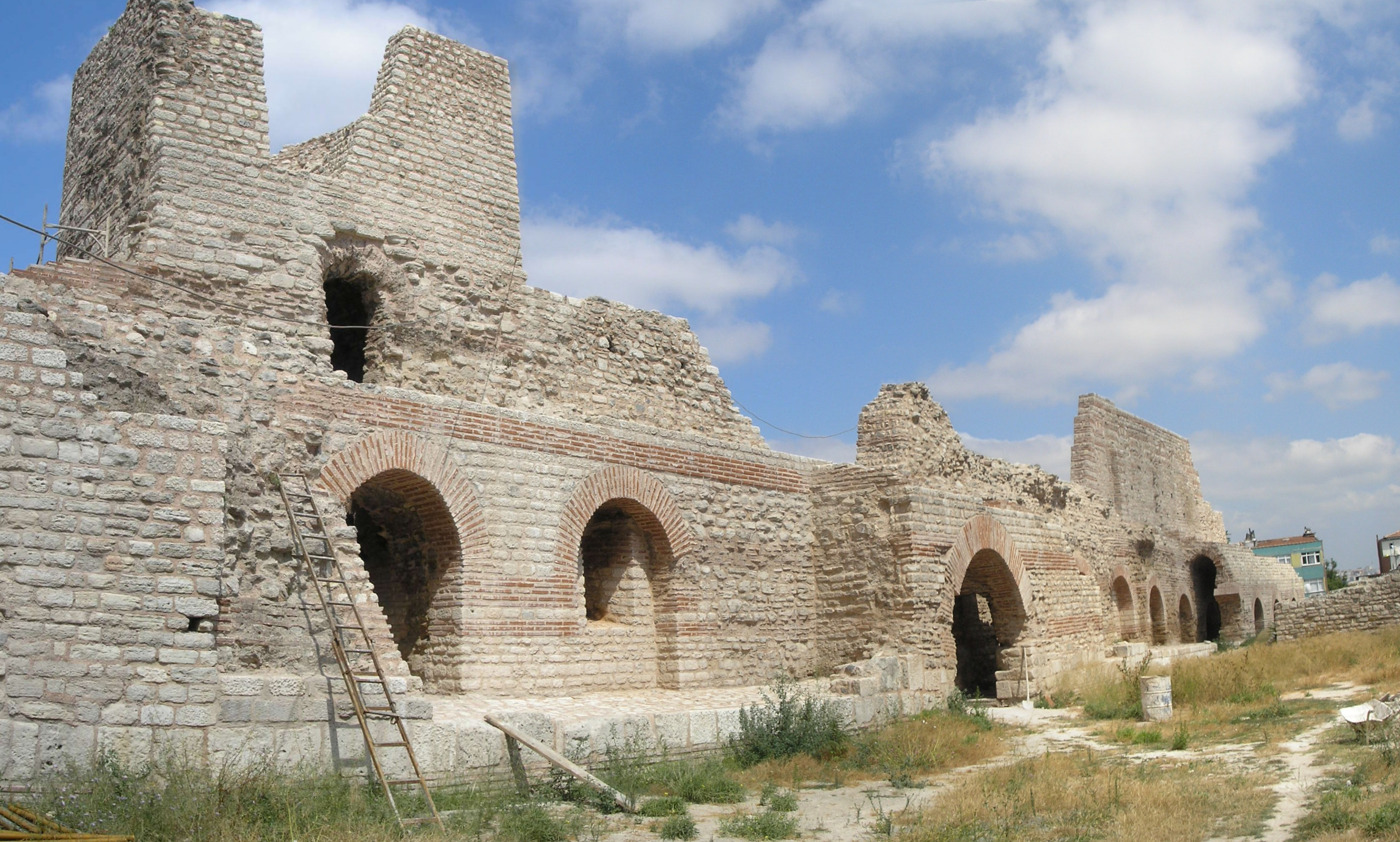 View of the ruins of the Byzantine Palace of the Porphyrogenitus in Istanbul.